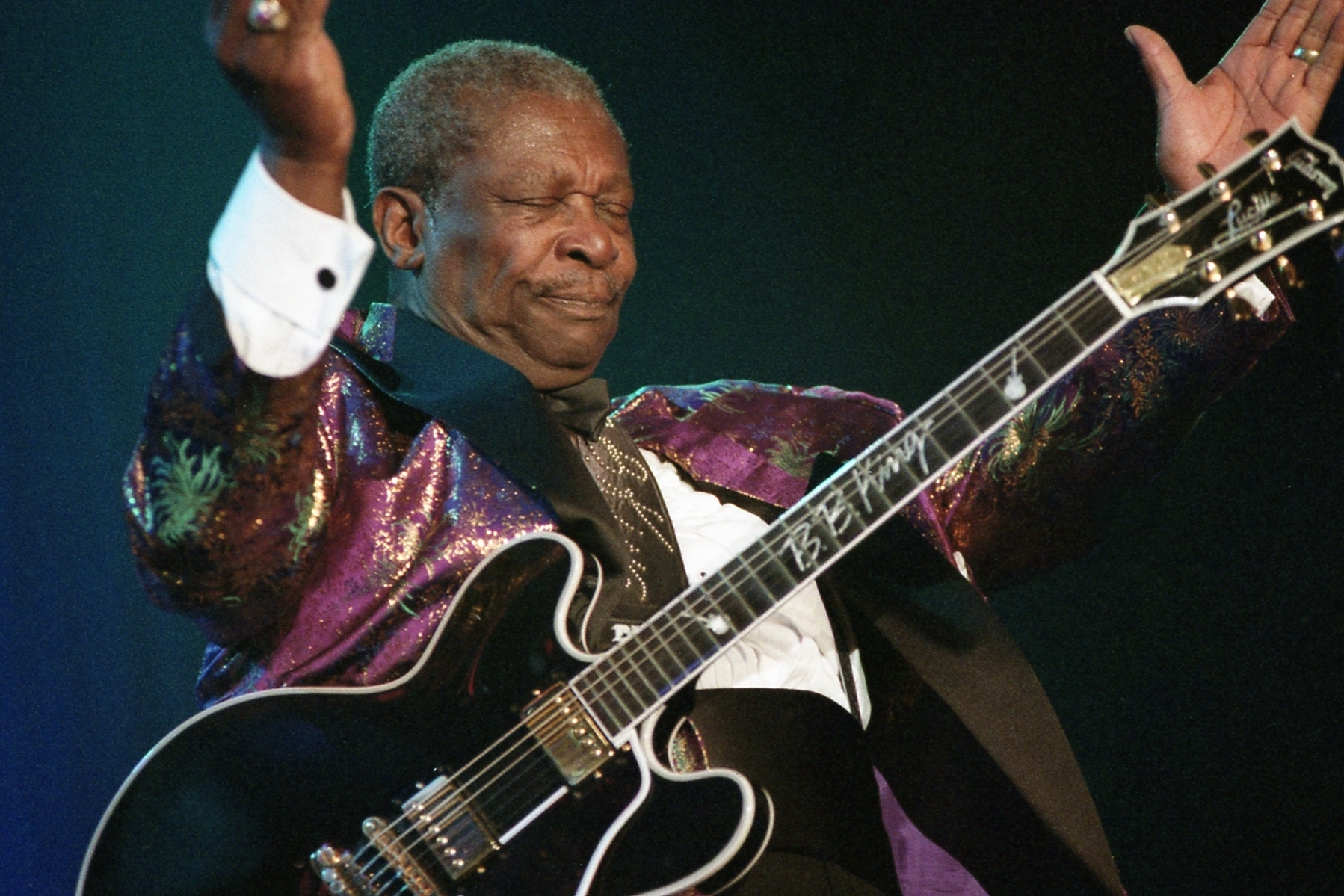 BB King in concert